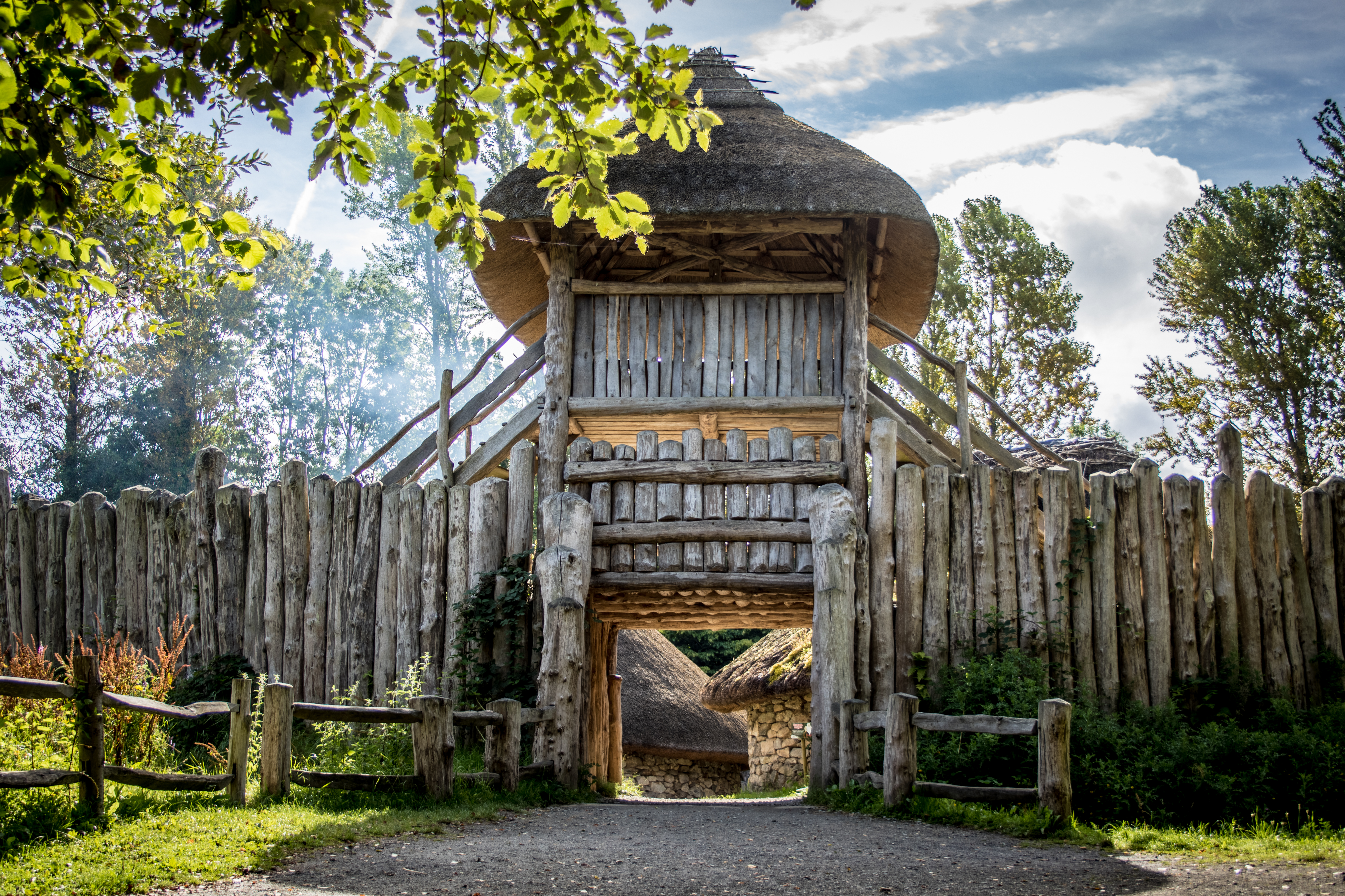 A reconstructed medieval Ringfort dating back over 1500 years. Found at the Irish National Heritage Park.